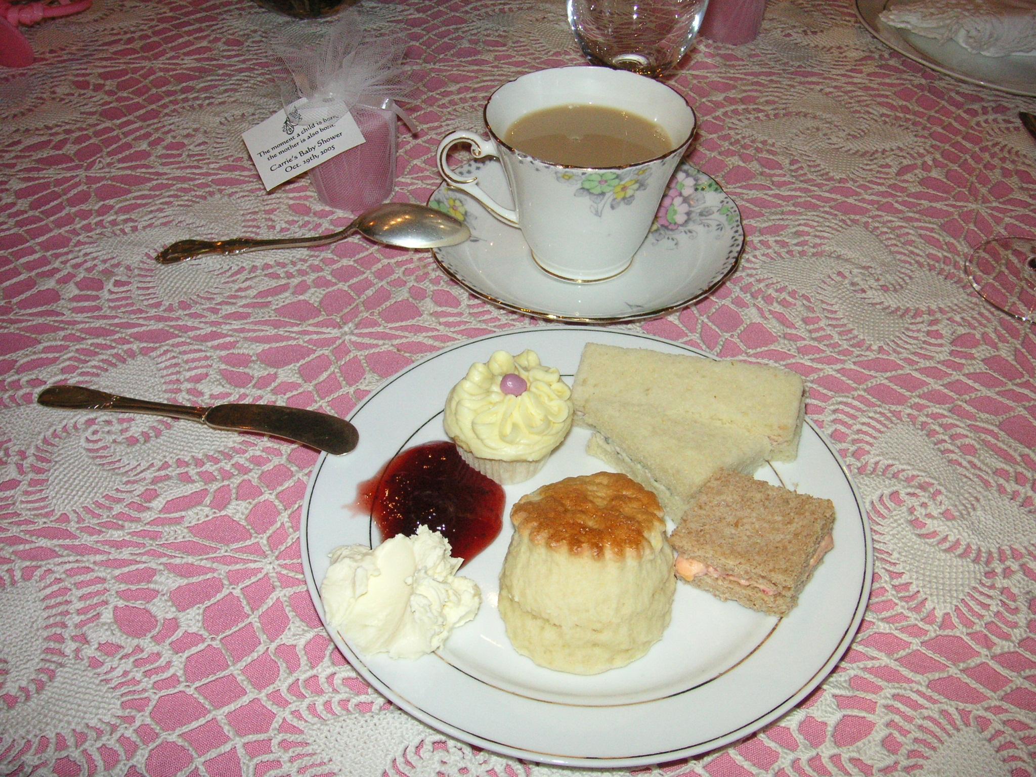 My sister Carrie's baby shower in 2005